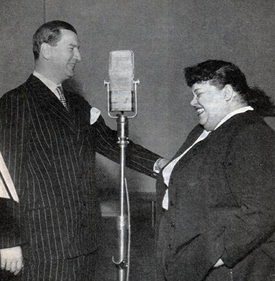 June Richmond appearing on Swedish National Radio programme Frukostklubben